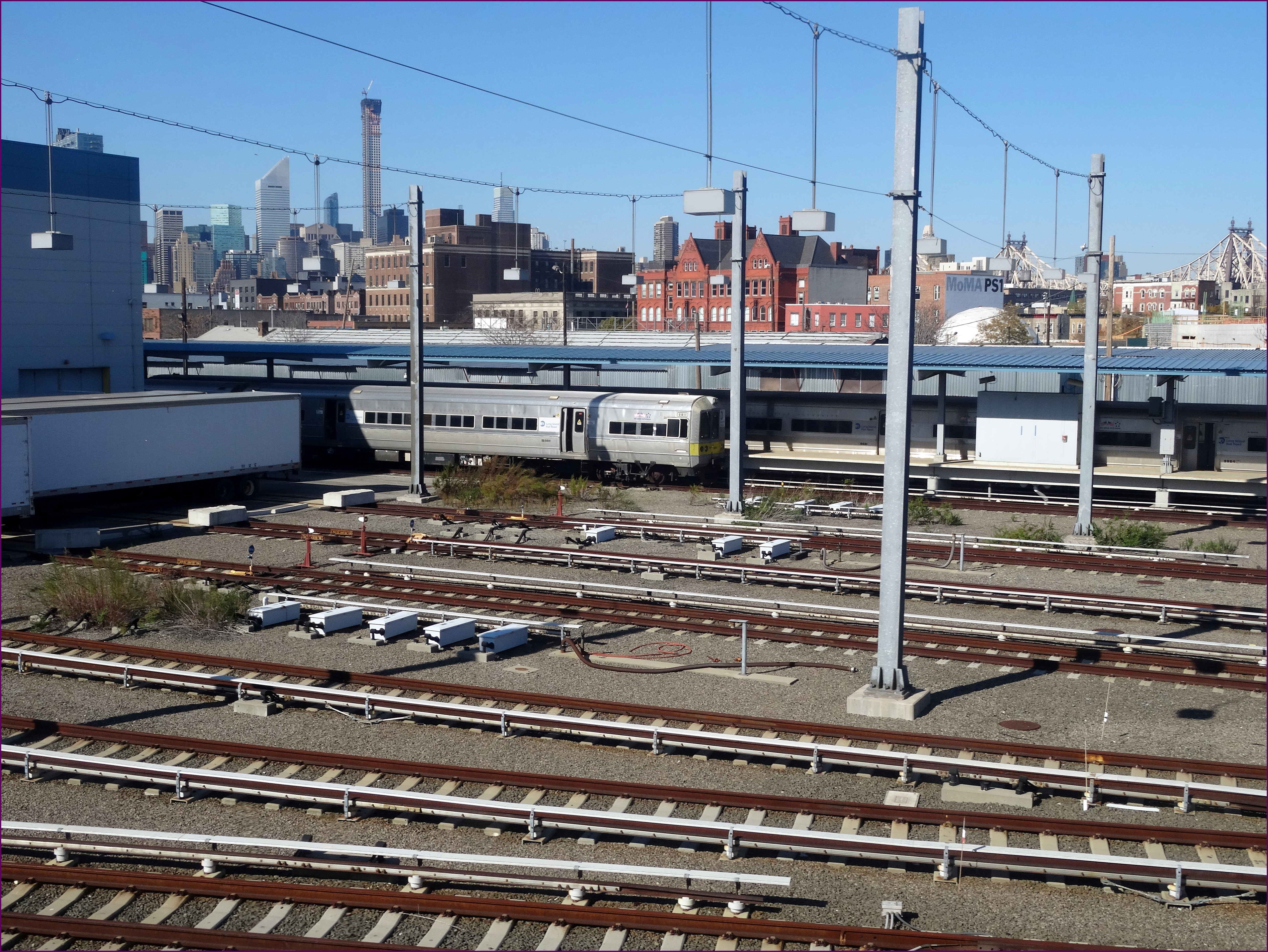 7 Train. Hunters Point/Long Island City